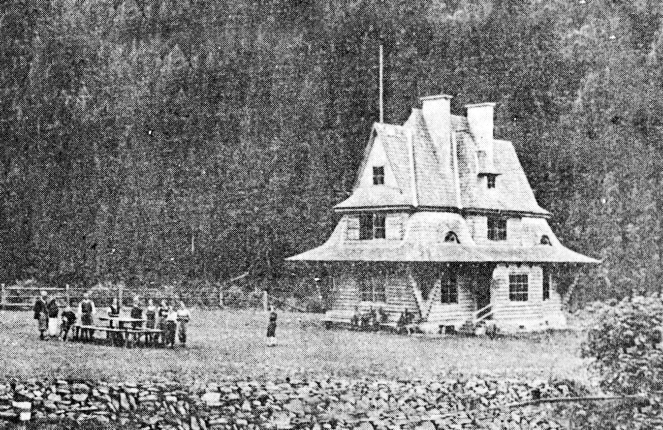 Mountain Hut of Polish Tatra Association at Świca river